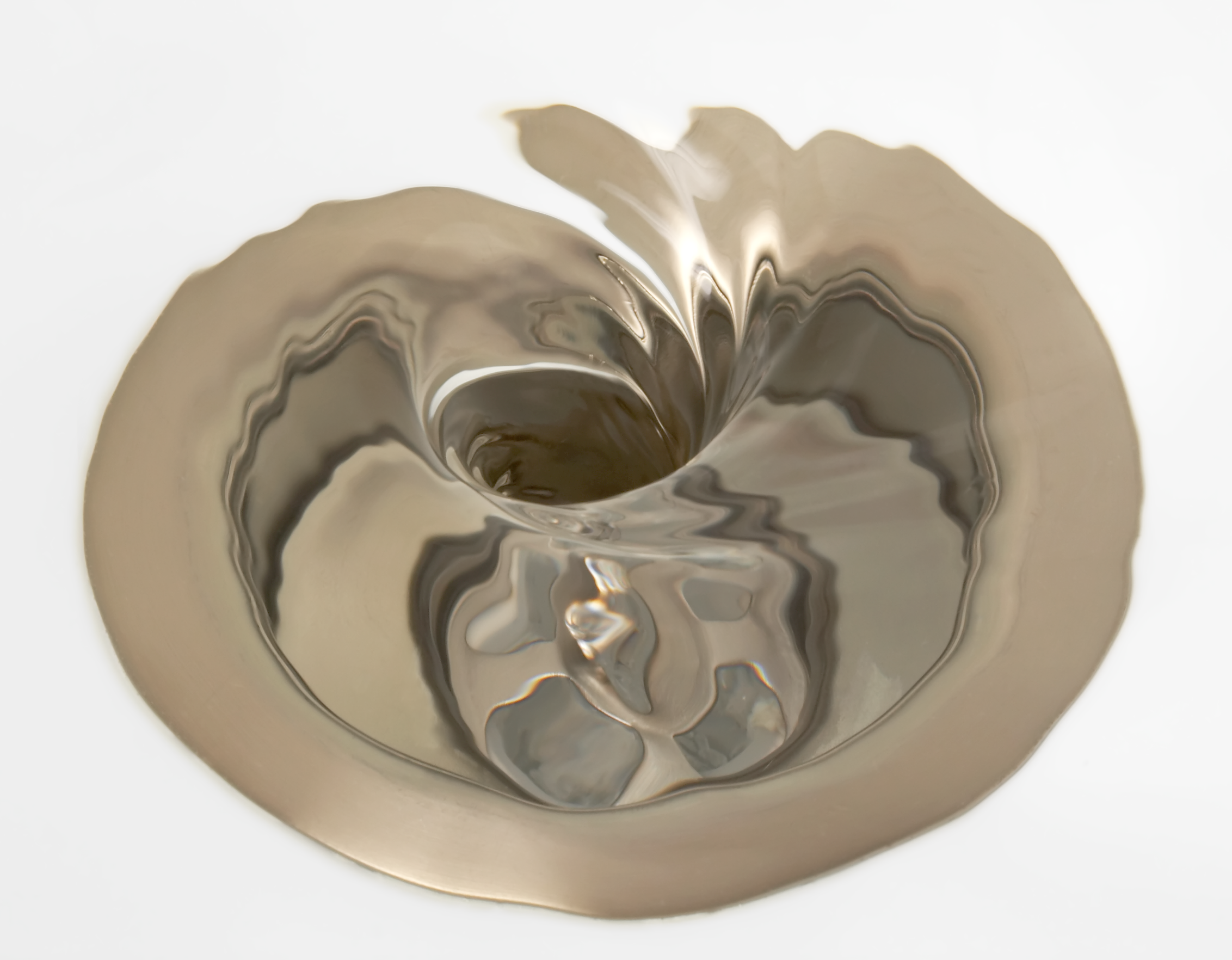 Water going down a drain